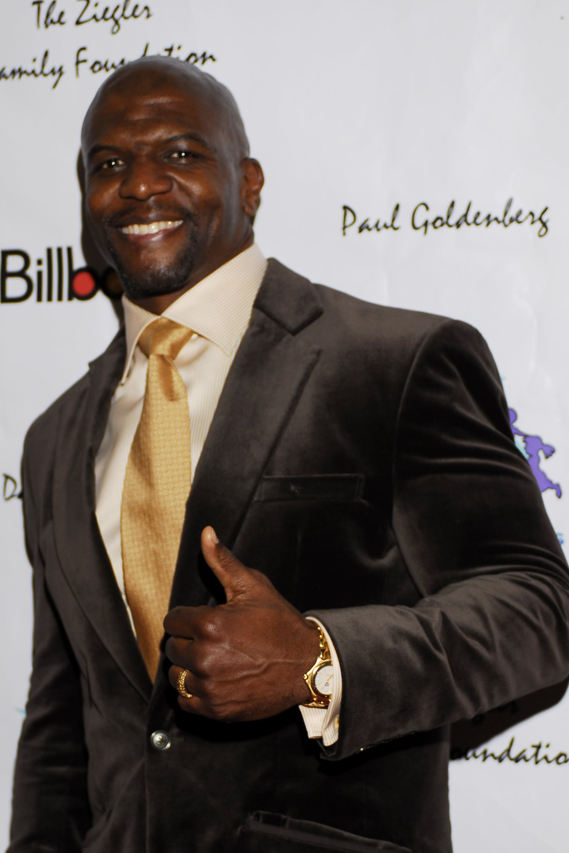 Terry Crews at the 79th Annual Academy Awards Children Uniting Nations/Billboard afterparty.